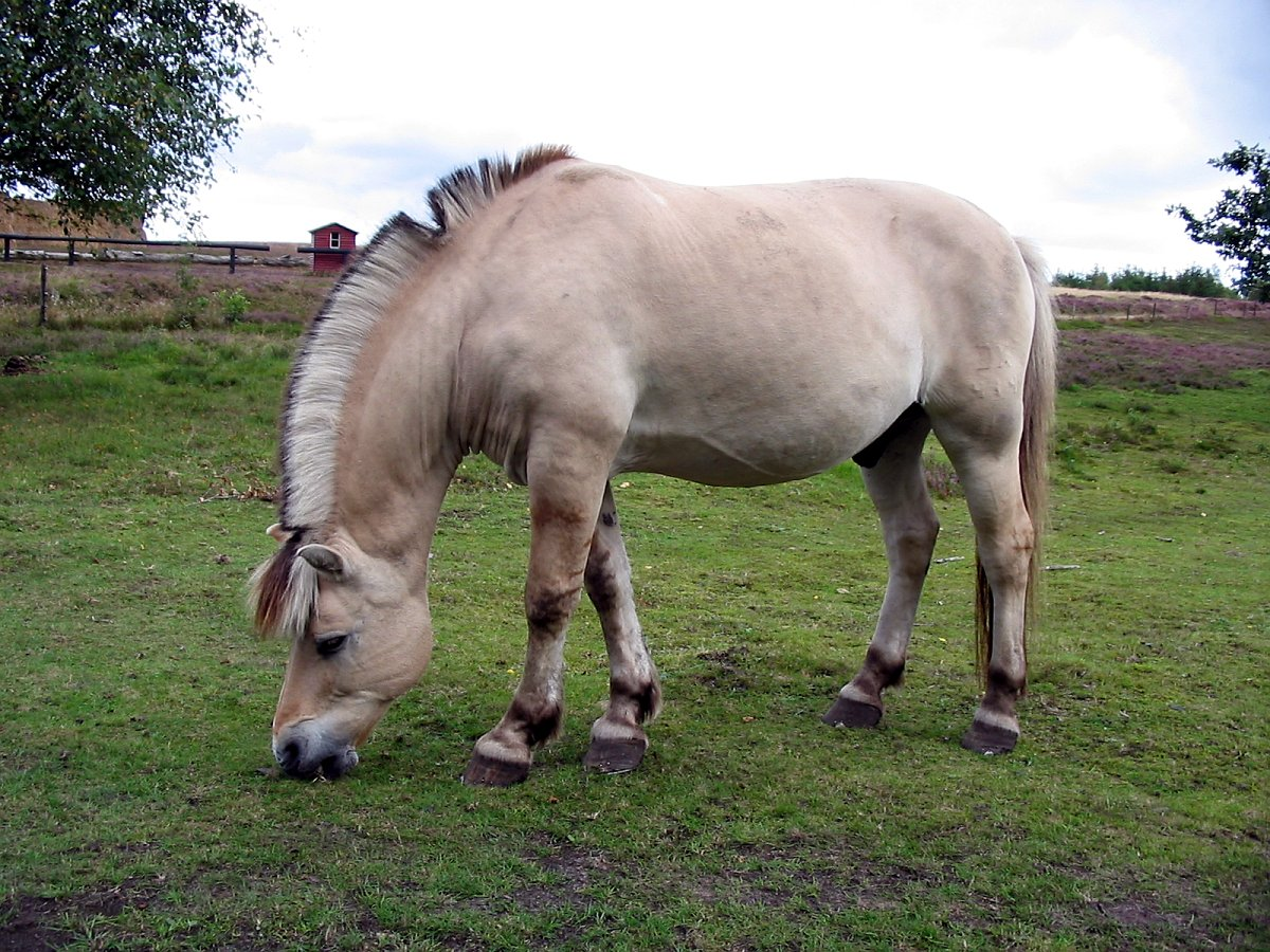 Norwegian fjord horse / fjording grazing, Danish open-air museum «Hjerl Hede»